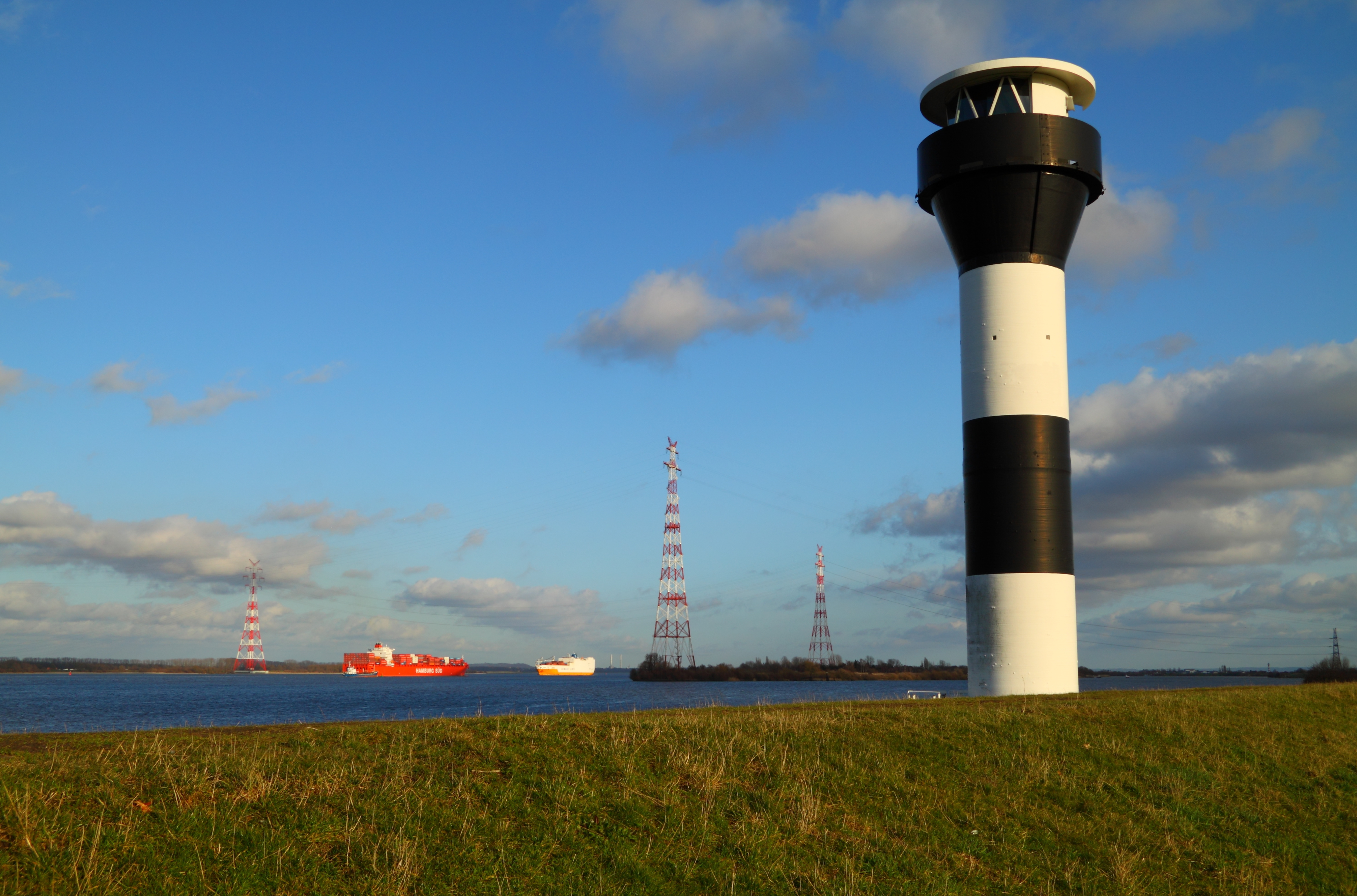 The Elbe near Twielenfleth, Twielenfleth lighthouse (Leitfeuer) and Elbe power line crossings 1 + 2.